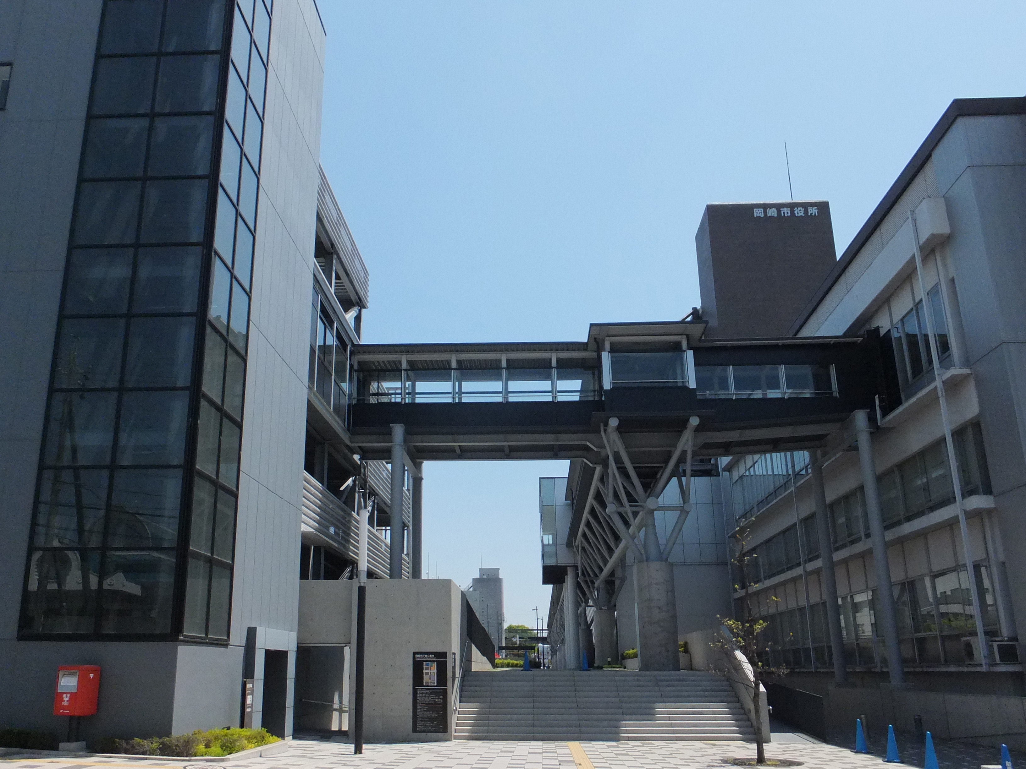 Okazaki City Hall (岡崎市役所), located at 2-9 Juo-cho, Okazaki, Aichi, Japan